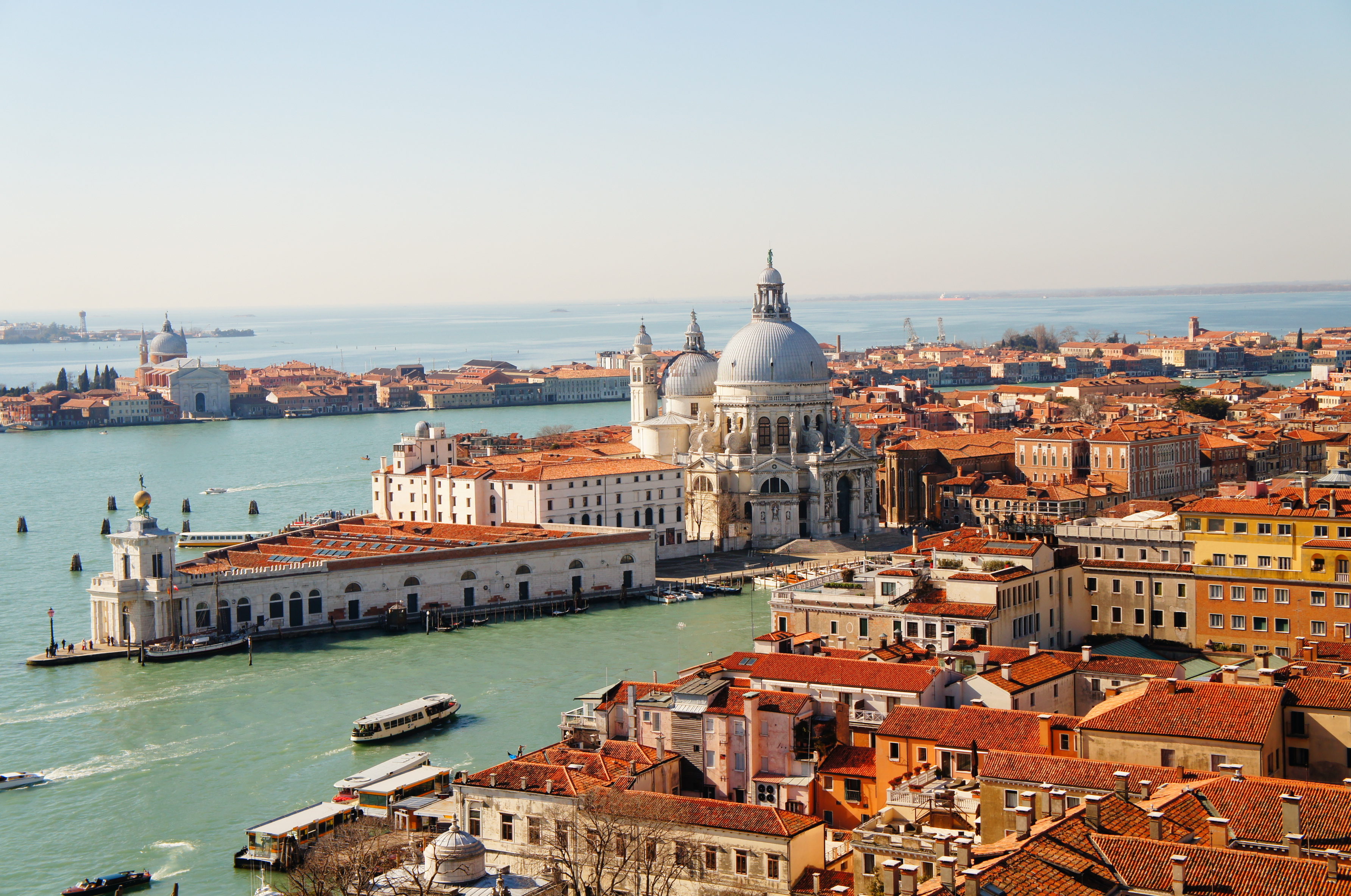 View from the Campanile of St. Mark's Basilica, Venice